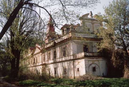 Chateau Úholičky, Prague-West District. Česky: Úholičky, zámek; okres Praha-západ